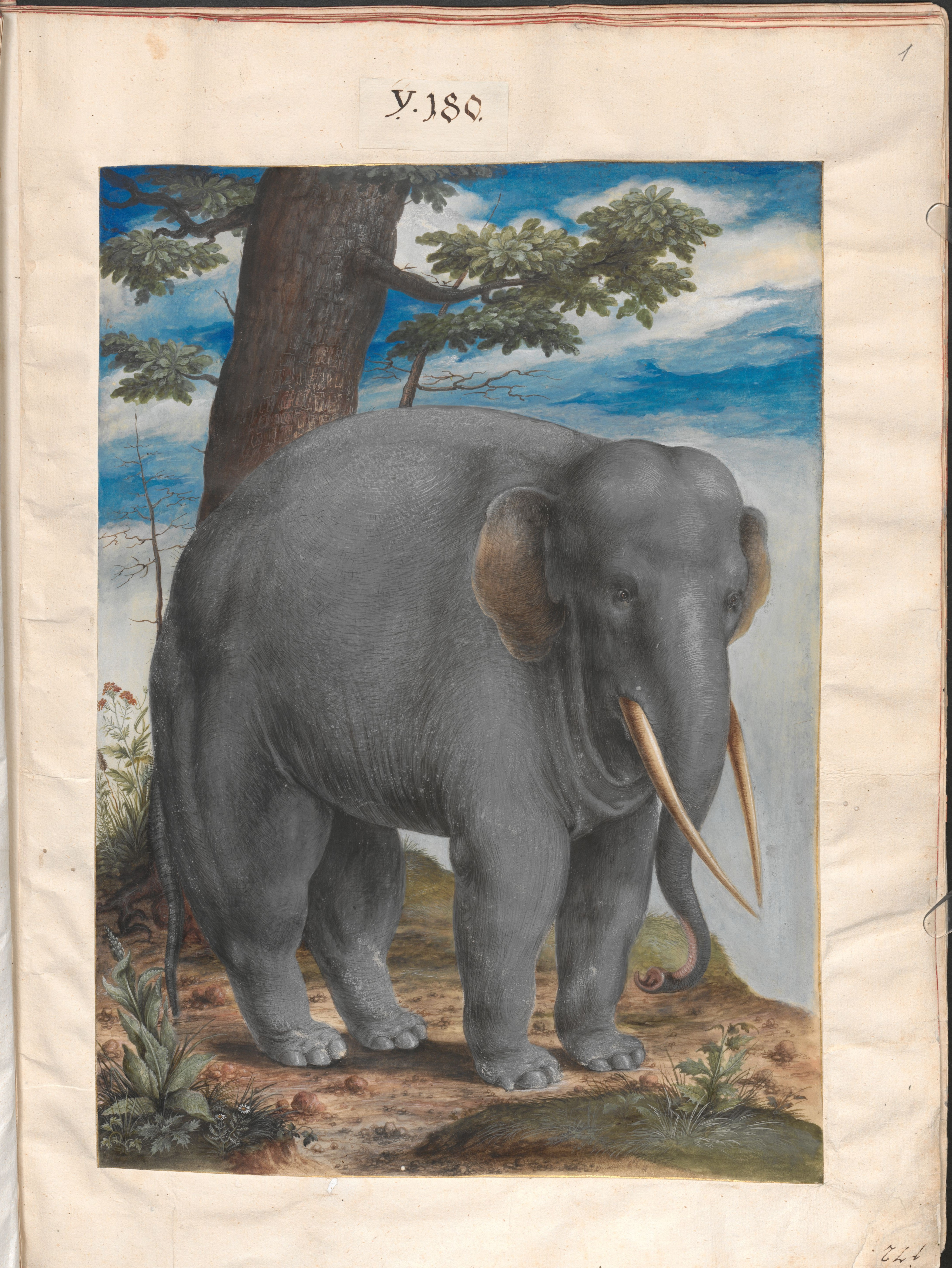 Hans Verhagen den Stommen - Drawing of a elephant, paper, brush in colour, body colour, from a codex of natural history drawings from the collection of Emperor Rudolf II, now kept at the Österreichische Nationalbibliothek